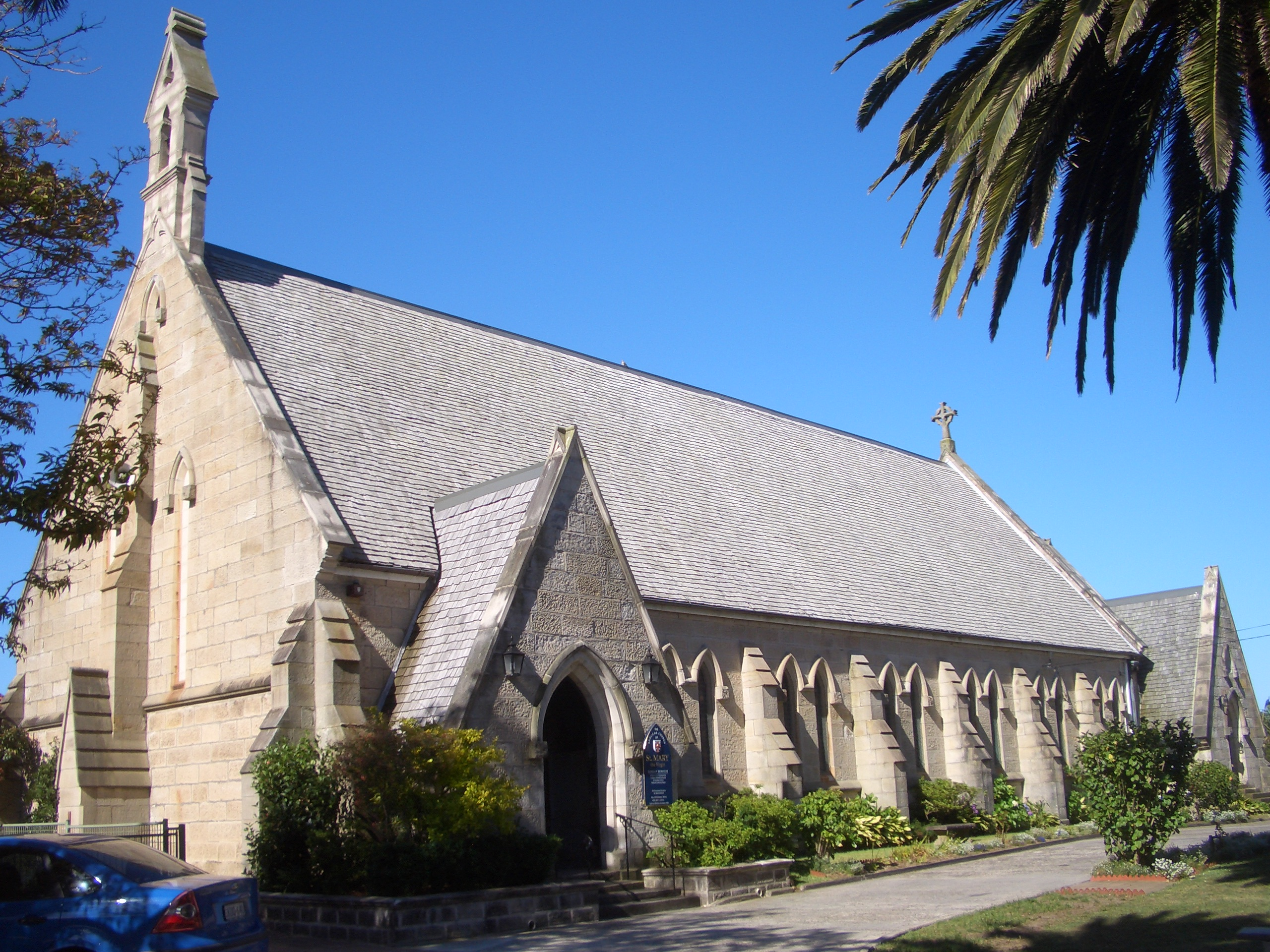 St Marys Anglican Church, Waverley